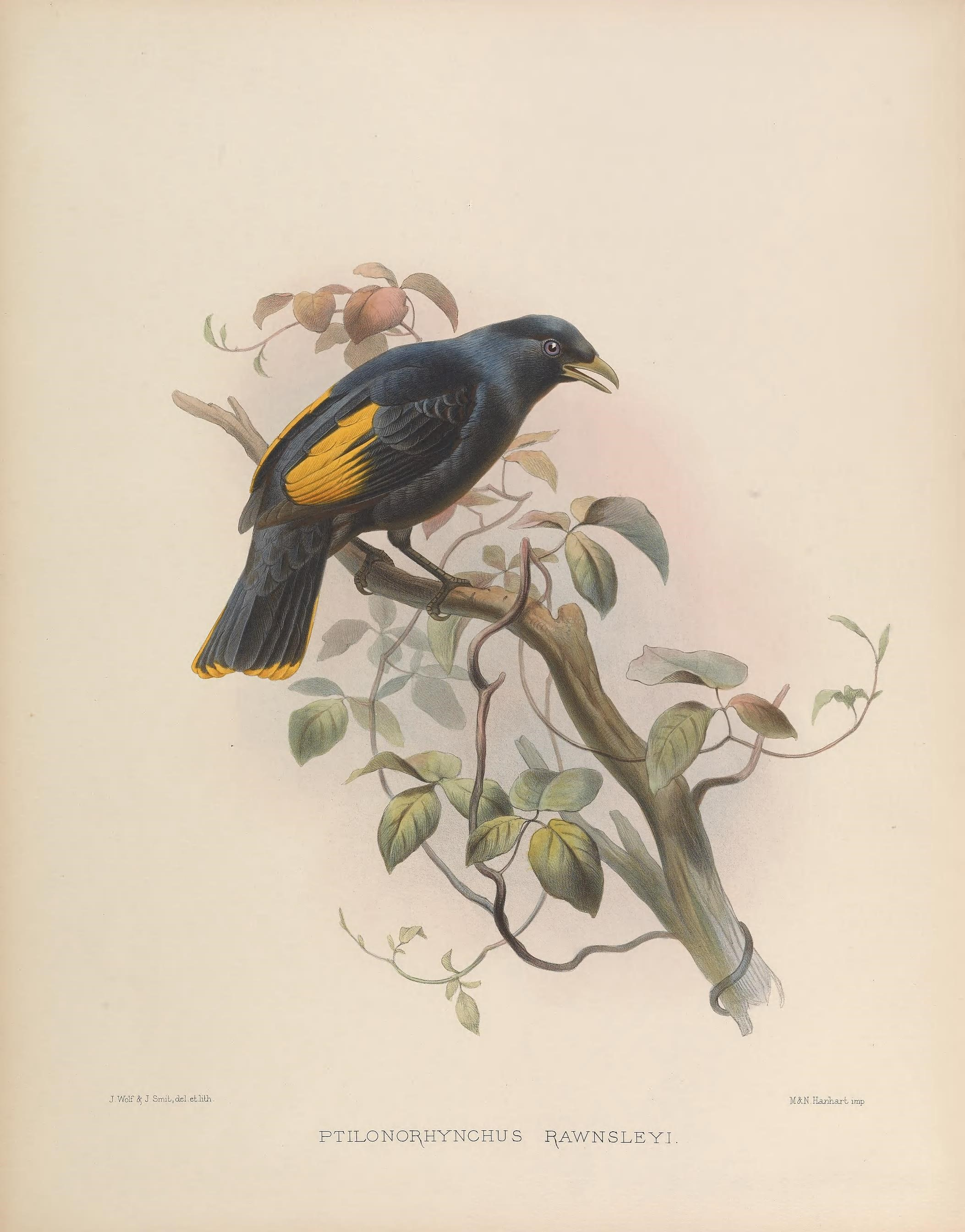 Drawing of 1873